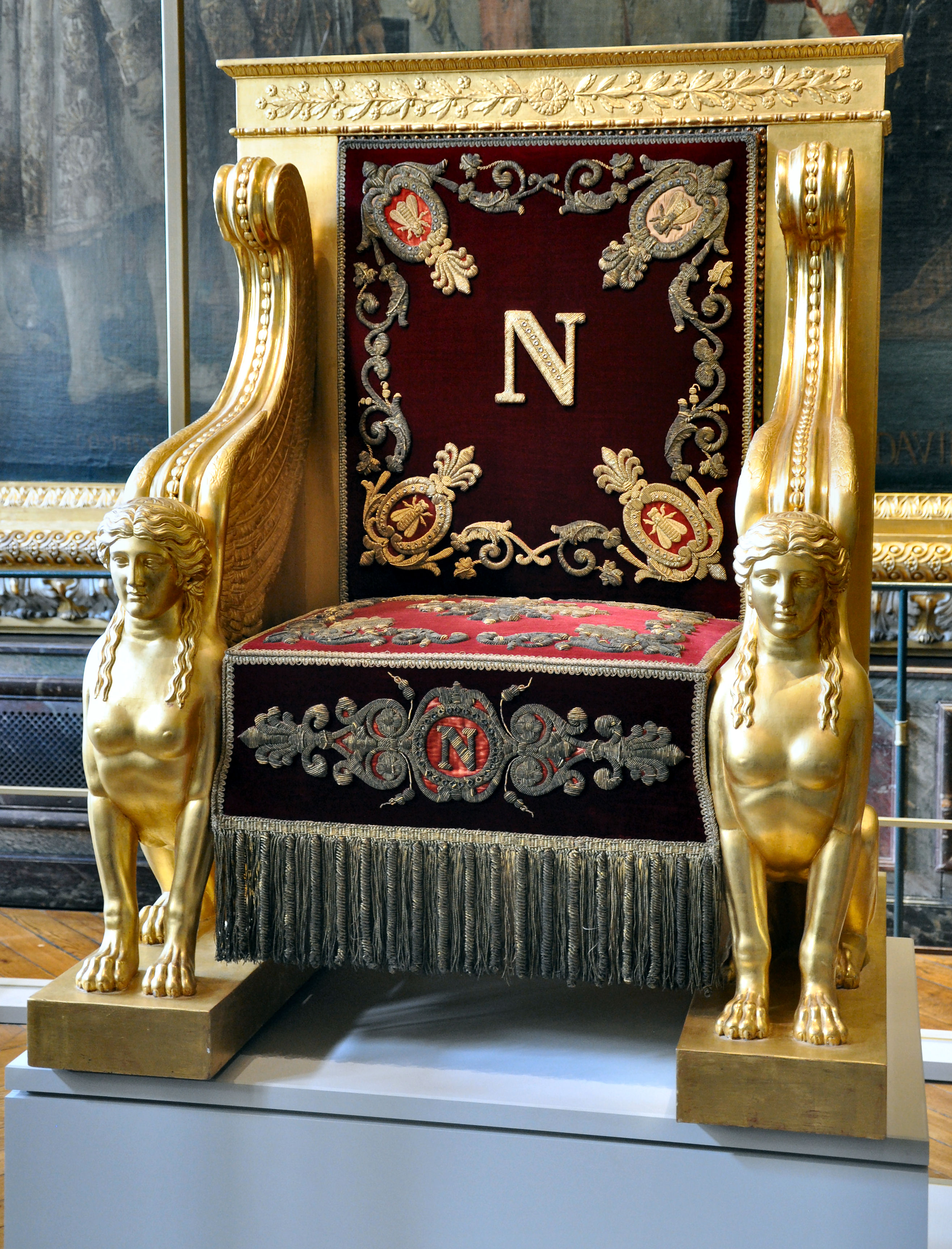 This throne intended for the Senate is based on a marble seat from the Roman period called « the throne of a priestess of Ceres », which arrived in France in 1796. David found the piece very beautiful and made a lovely sketch of it. The seat is adorned with gold-thread embroidery featuring a bee, the imperial emblem, and the emperor's monogram on the backrest. The elbow-rests depict a pair of winged sphinxes. A canopy supported by six gilt plaster Victories surmonted the chair. It comes from the Throne Gallery built in the Luxembourg Palace during Napoleon III's reign. Today, it is in the Senate conference room.